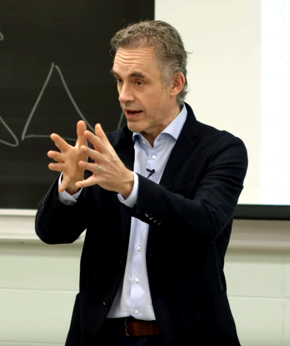 Dr.Jordan Peterson delivering a lecture at the University of Toronto in 2017.